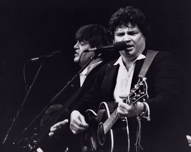 The Everly Brothers performing live in New York. Possibly 1980s photo.